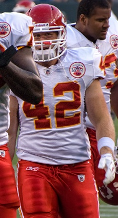 Kansas City Chiefs vs. Green Bay Packers at Lambeau Field on September 1, 2011. Photo by Mike Morbeck.